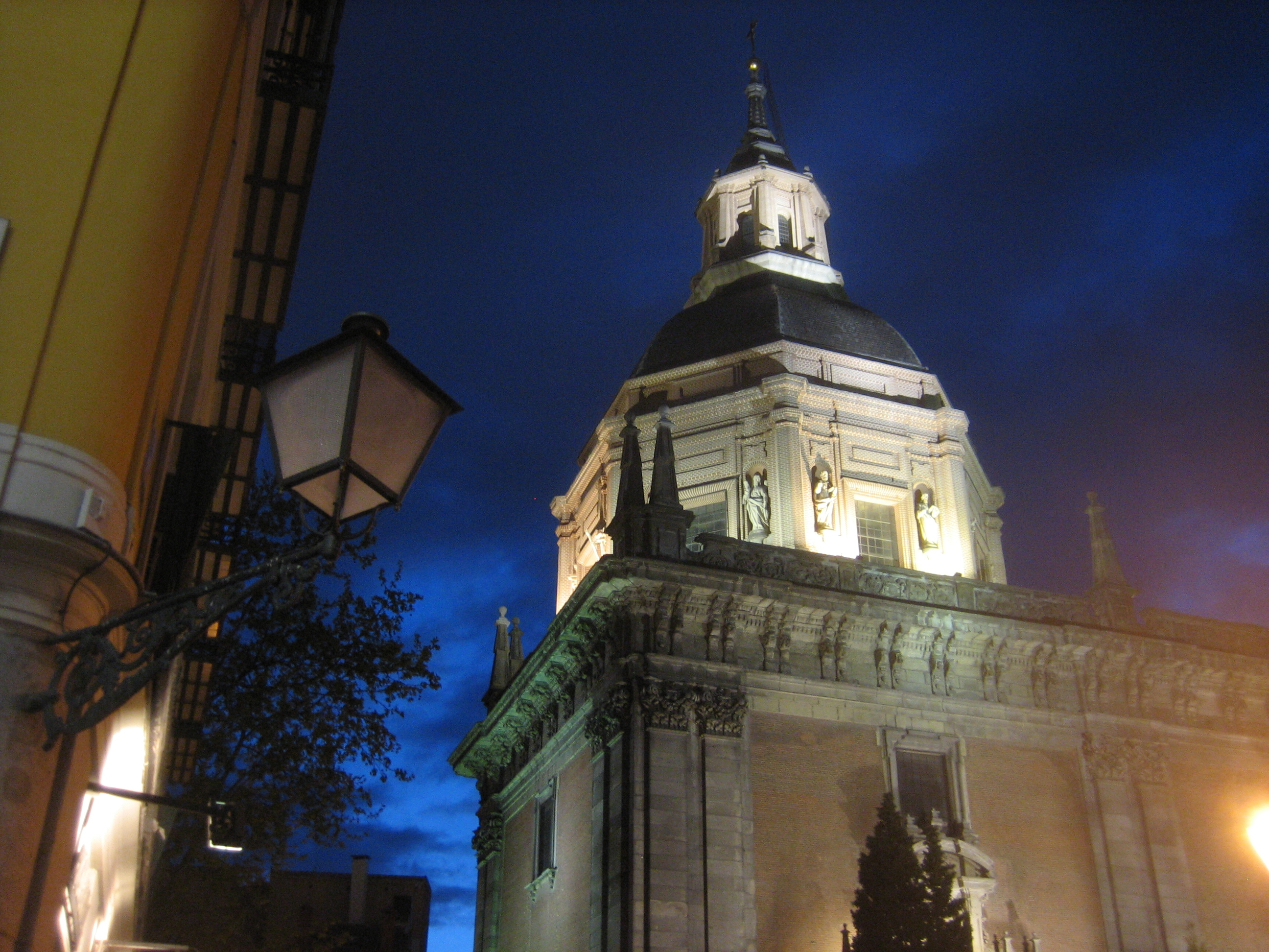 Night view of the Capilla de San Isidro ("Saint Isidore's Chapel") at the Iglesia de San Andrés ("St. Andrew’s Church") in Madrid (Spain). Chapel was projected by Pedro de la Torre and José de Villarreal and built between 1642 and 1669. It was restored three times between 1942 and 1991.